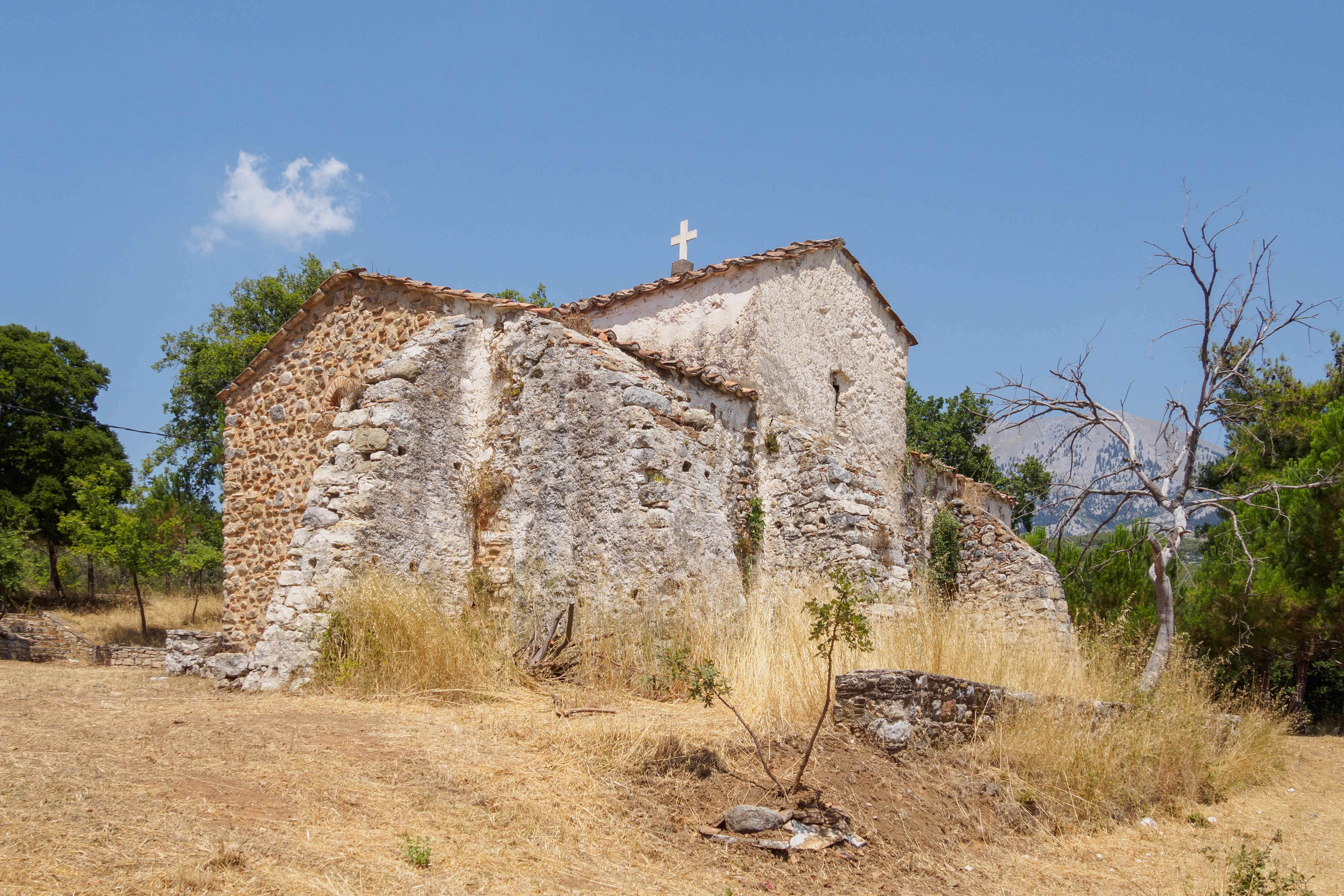 The medieval church, probably 14th century, located near Loutsa, Euboea.